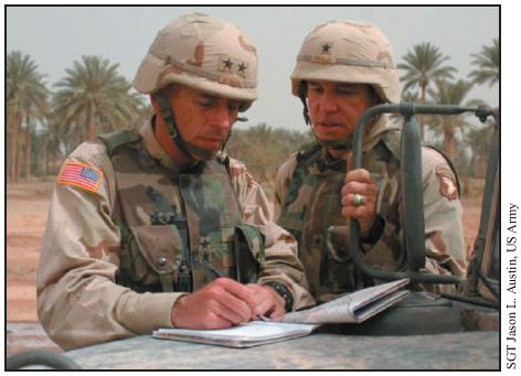 Figure 119. Major General Petraeus, 101st Airborne Division commander, and Brigadier General Ben Freakley, assistant division Commander for Operation